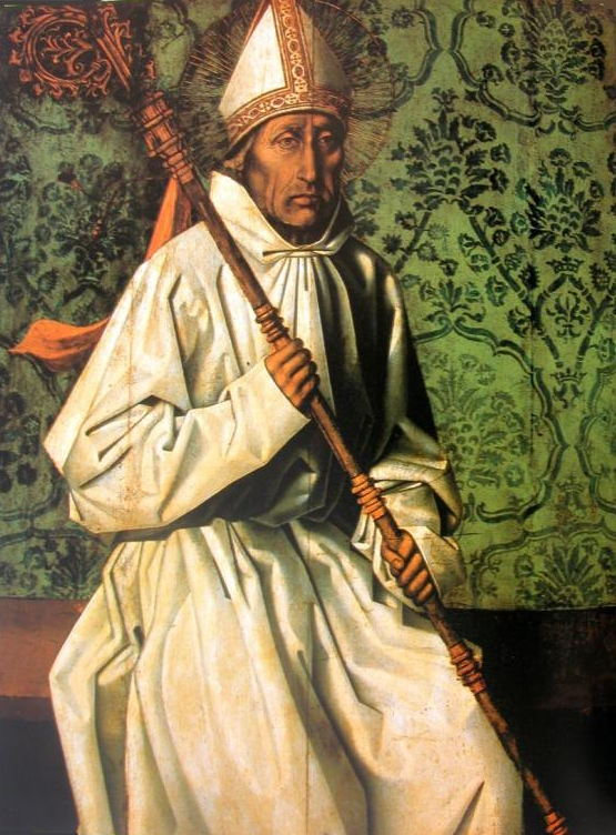 Saint Theotonius, by Nuno Gonçalves (currently at the National Museum of Ancient Art, Lisbon, Portugal).